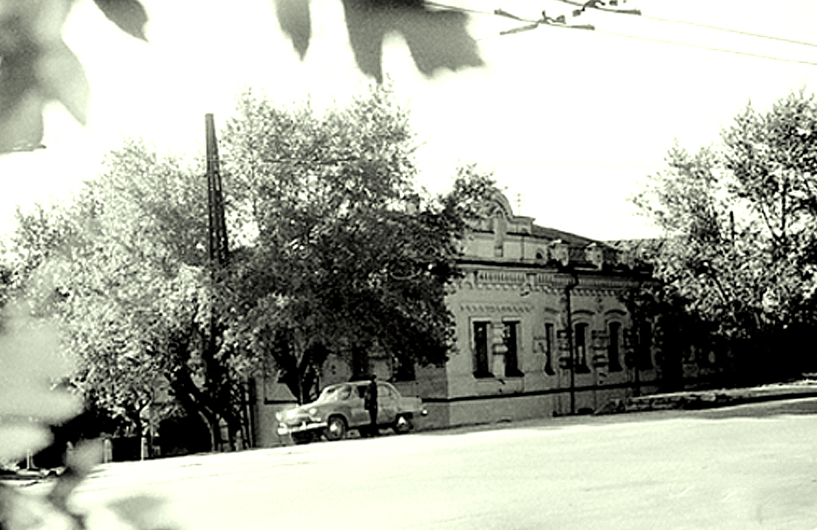 Ipatiev’s Mansion